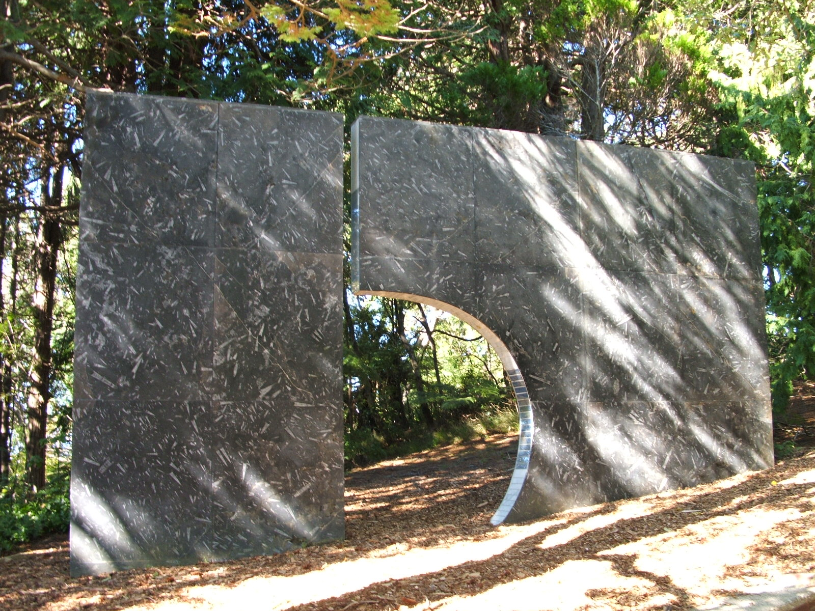 Sculpture Rudderstone (1997) by Denis O'Connor in the Wellington Botanical Garden, Wellington, New Zealand. The author releases the picture into the public domain.